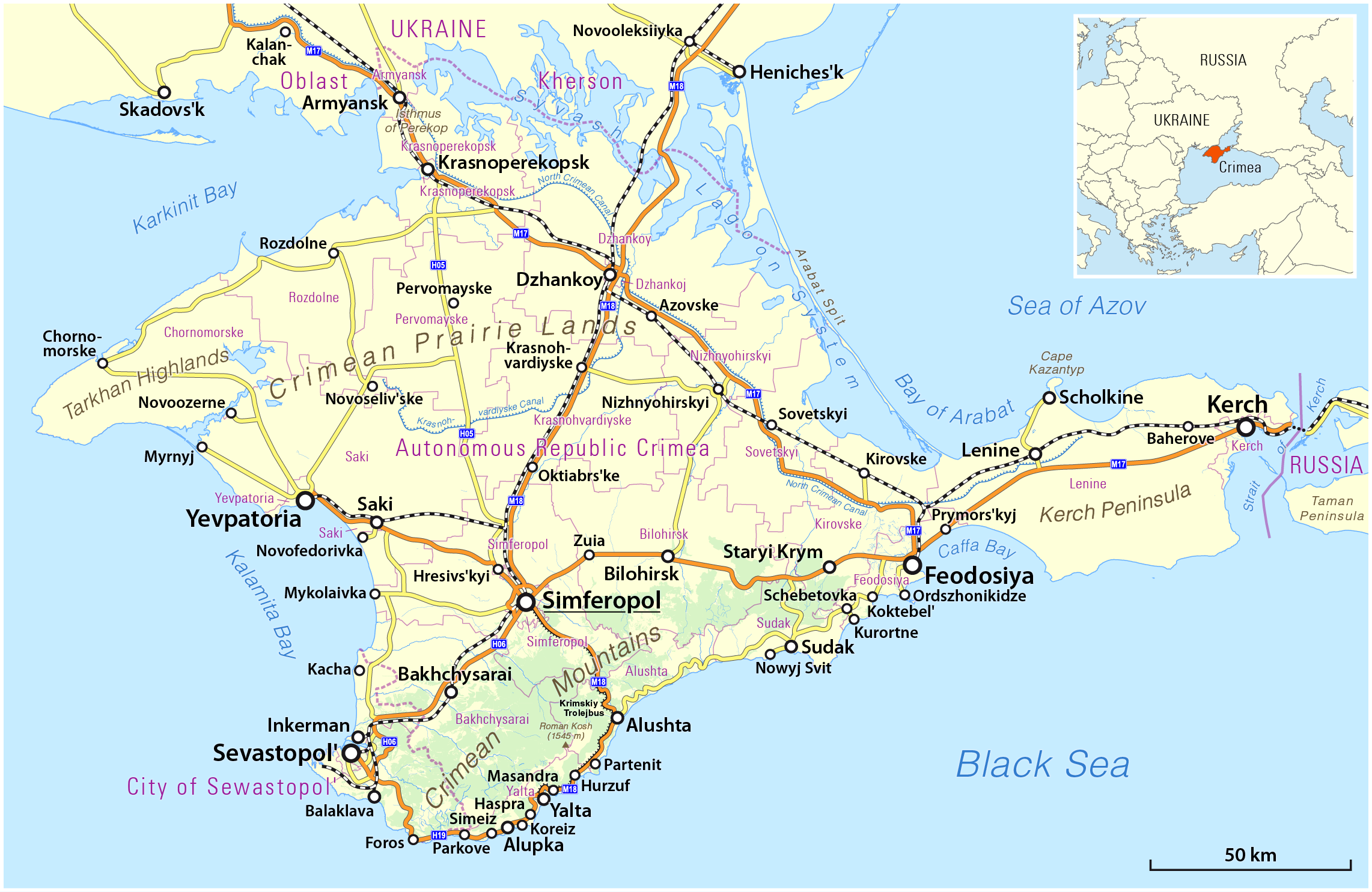 Map of the Crimea